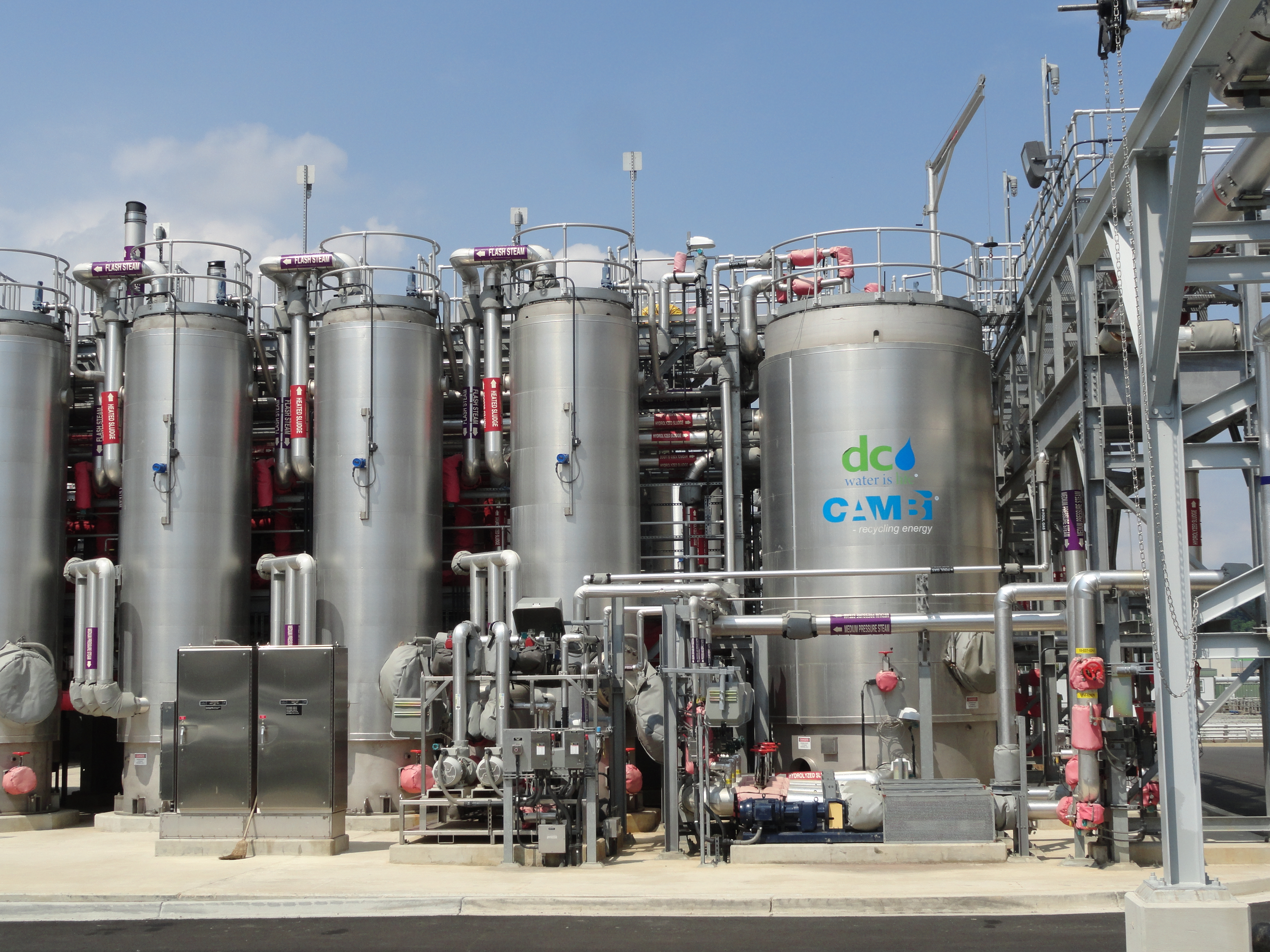 View of sludge thermal hydrolysis reactors at the Blue Plains Advanced Wastewater Treatment Plant, Washington, D.C. This is the largest thermal hydrolysis plant in the world as of 2016. The system began operation in 2015 and generates high quality sludge that is used as soil amendments (200,000 tons/year). It also generates 10 MW of electricity that is used elsewhere at the treatment plant.